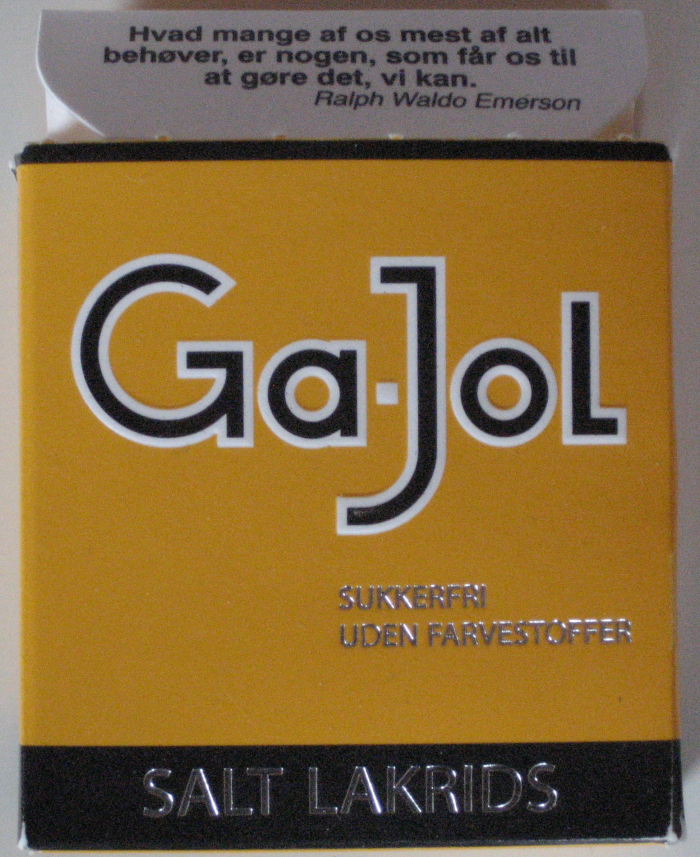 Box of Gajol salty Danish liquorice with a poem by Ralph Waldo Emerson (1803 – 1882)